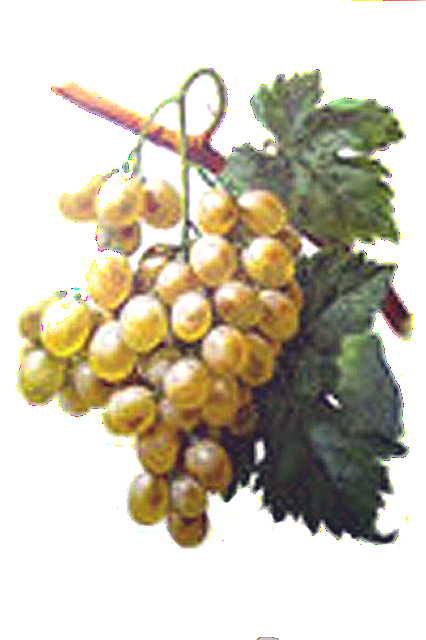 Variety Aïn Amokrane